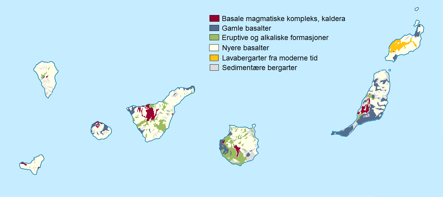 Geology map of the Canary Islands. Map based on Locator Map Blanc. Geology information based on official geology map, Geology Museum, Lanzarote. Text in Norwegian.